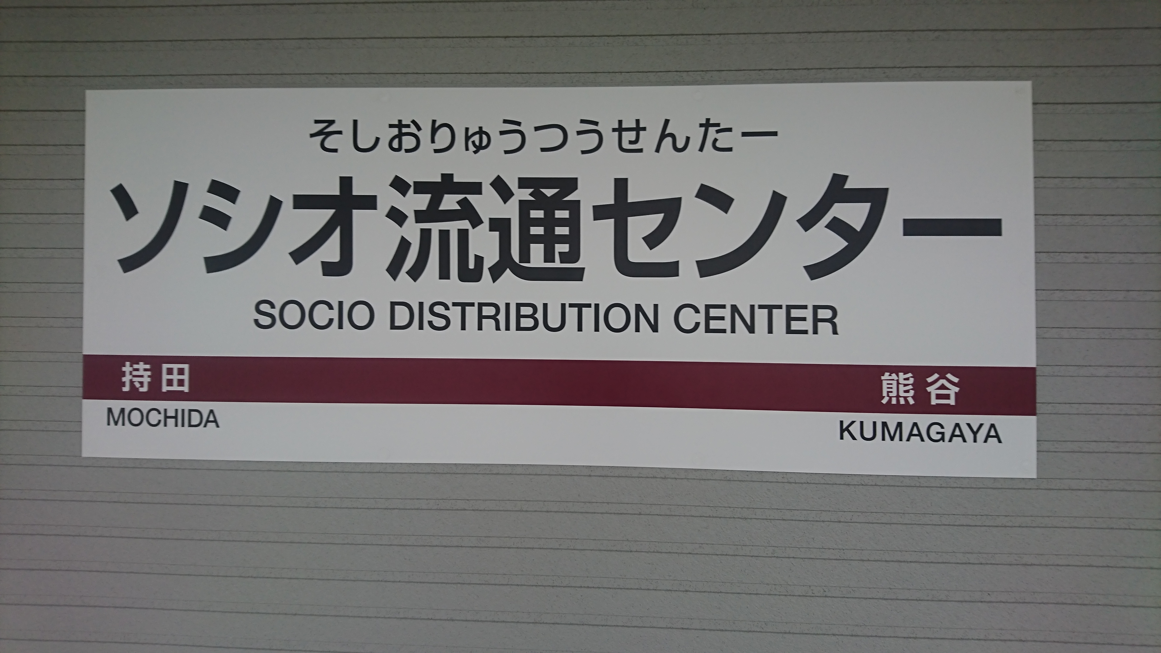 The station sign at Socio Distribution Center Station on the Chichibu Main Line in Saitama Prefecture, Japan